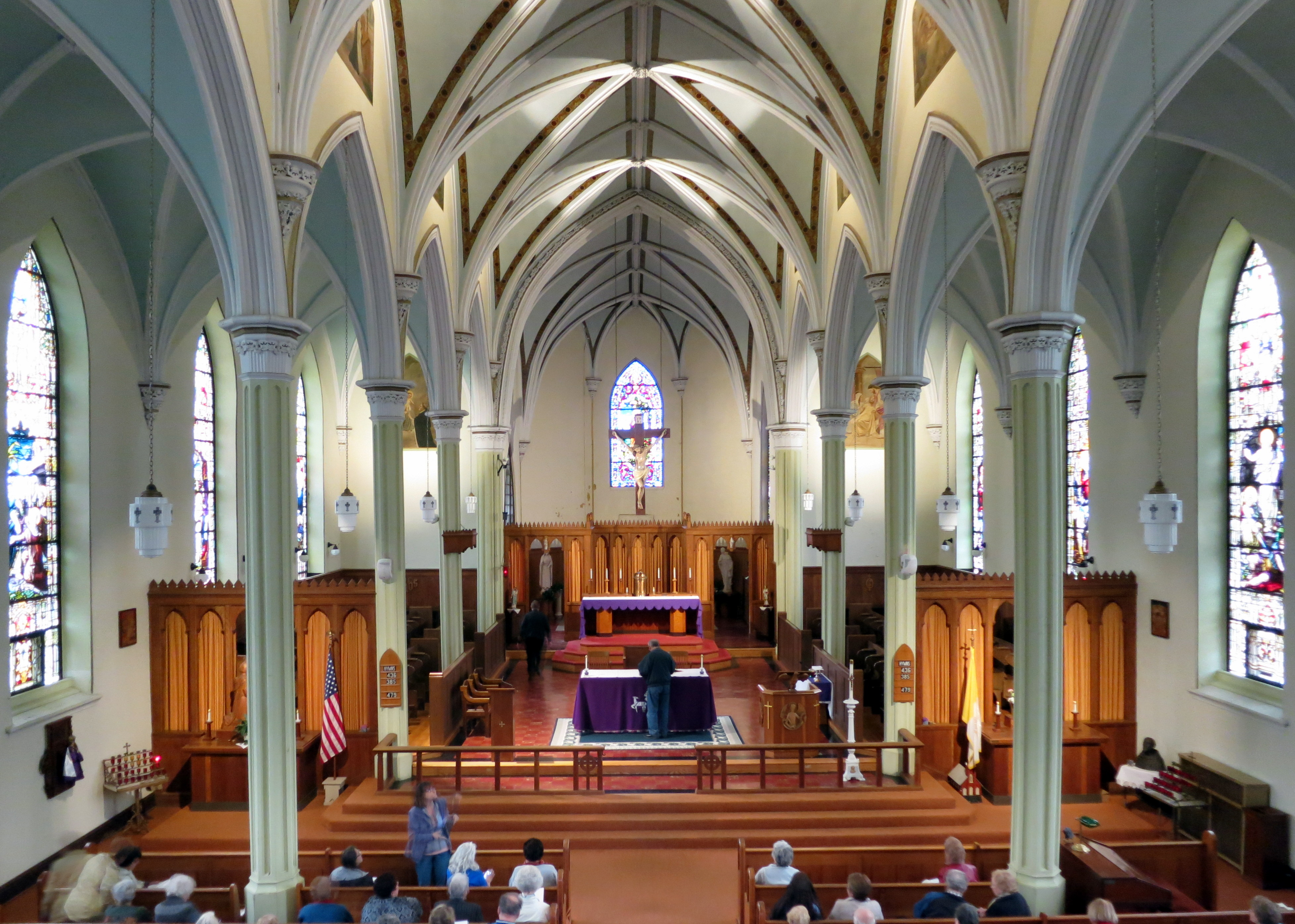 Saint Joseph Catholic Church (Somerset, Ohio) - nave, view from the loft